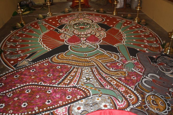 Vazhappally_Kalamezhuthum_pattu